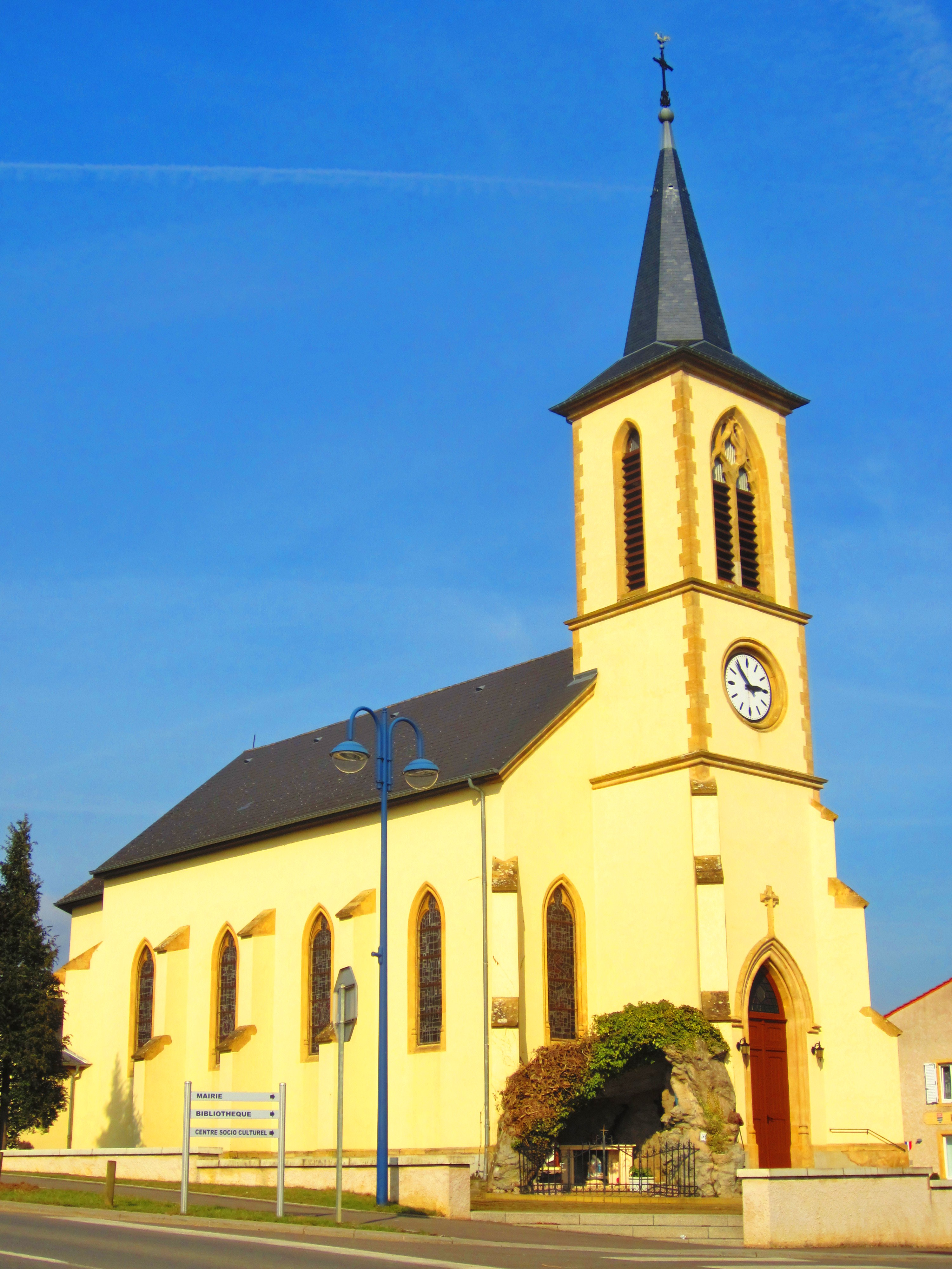 Evrange church